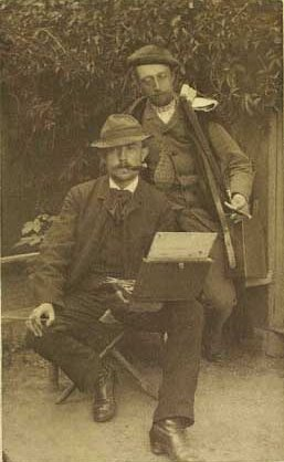 Danish painters Peter Tom-Petersen (1861-1926) and Georg Nicolai Achen (1860-1912)